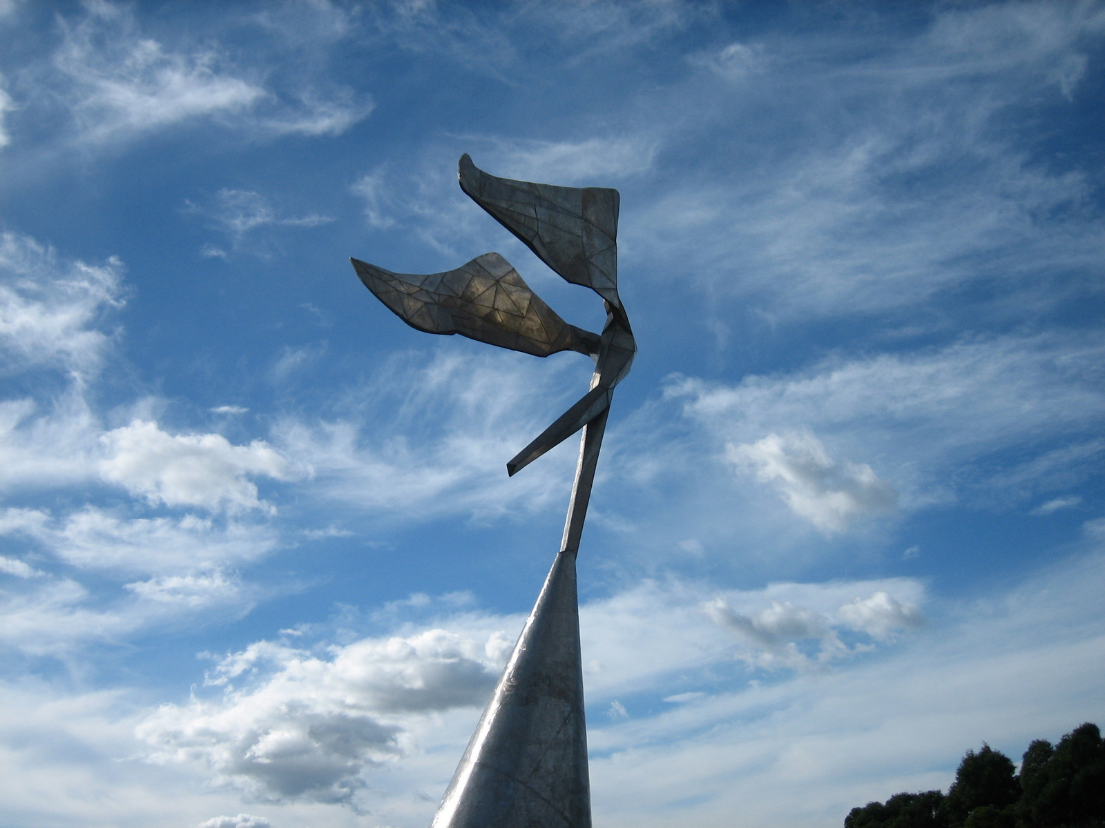 Lawrence Hargrave Sculpture (detail) by Bert Flugelman Mount Keira/Wollongong - Australia